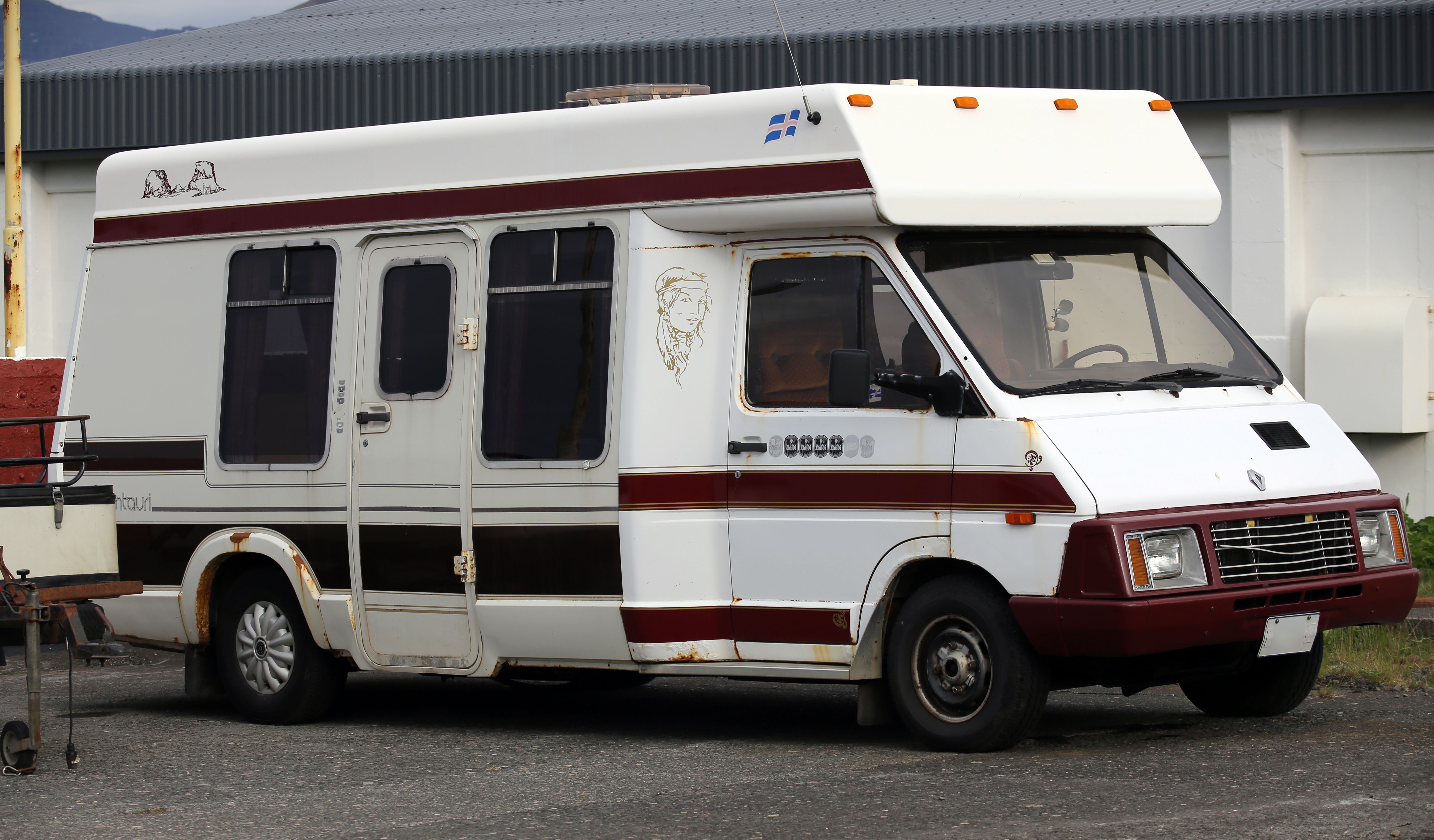 1983 Winnebago Centauri, a Renault Trafic based motorhome with a 2.1 liter diesel or turbodiesel engine. The raised roof is non-standard, and the side windows seem to have been mounted upside down.